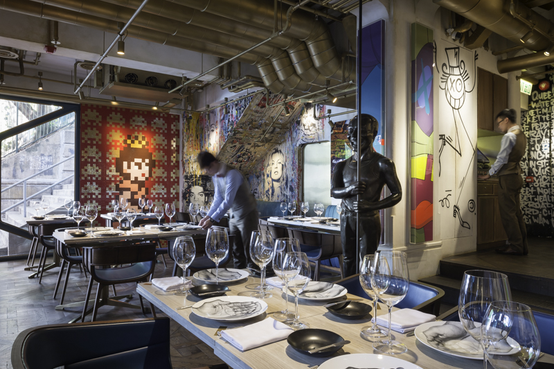 A revamped Mario Princess was installed at Bibo, a restaurant on Hollywood Road in Hong Kong, as an invasion gift in 2014 during Invader's visit to the city. The red and gold colours used in this large format mosaic reflect the five-element theory of Chinese philosophy.